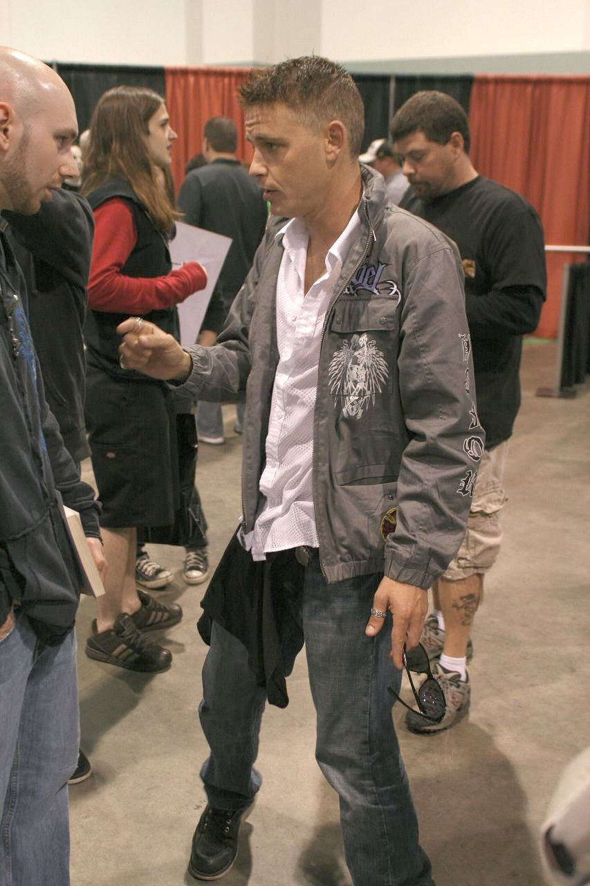 Corey Haim